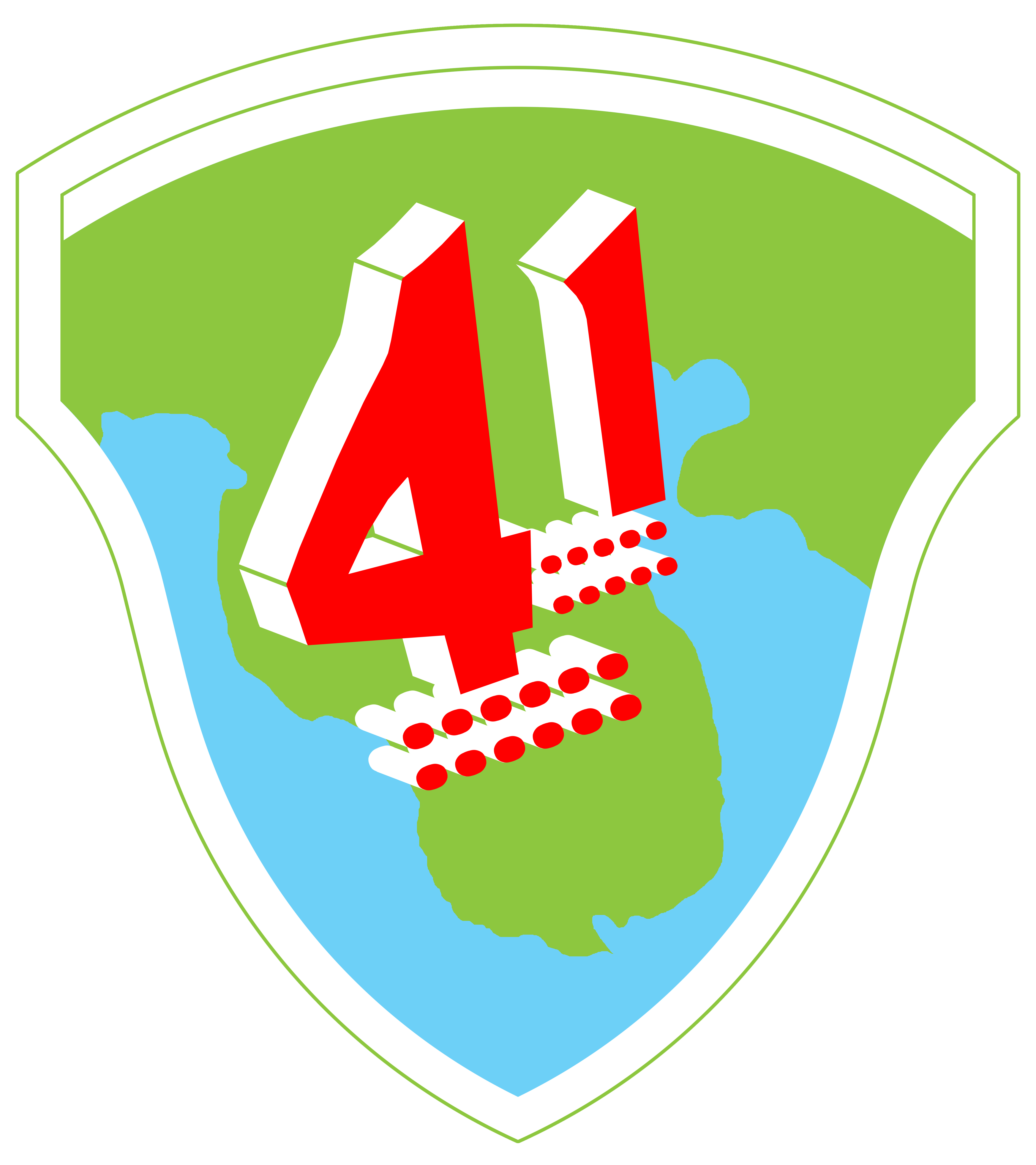 41st Philippine Division emblem from 1941-42, possibly not developed until late in that period or just after; color versions of this are a matter of record, and bronze version(s) of these emblems are seen on monuments around the Philippines.